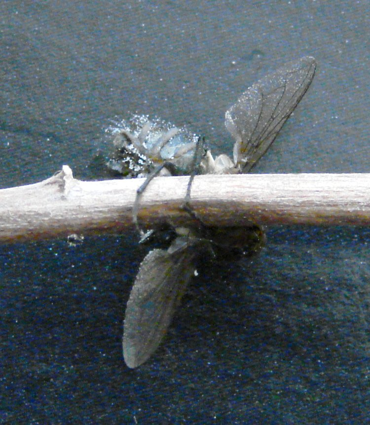 Entomophthora muscae